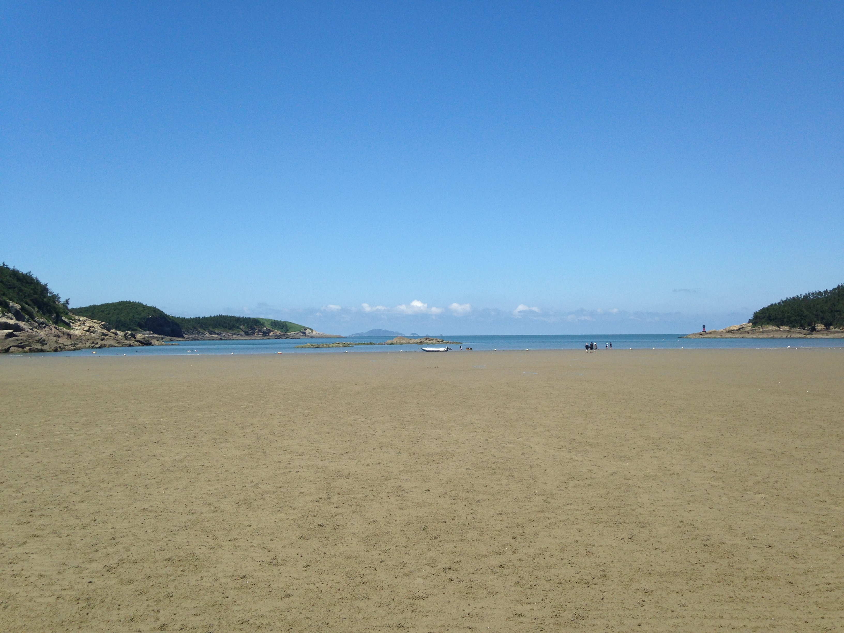 위도 해수욕장